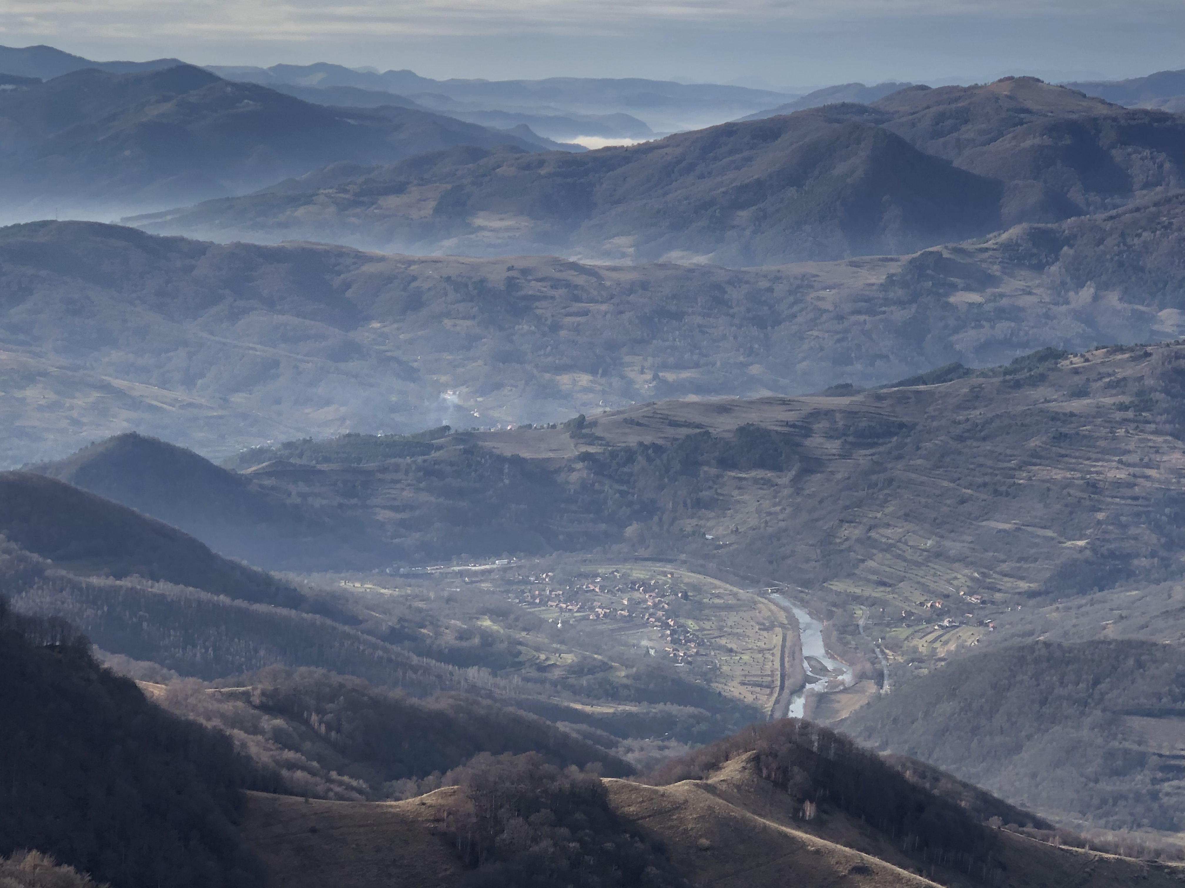 Lunca Arieșului (Poșaga), seen from Ugerului Peak, December 2019